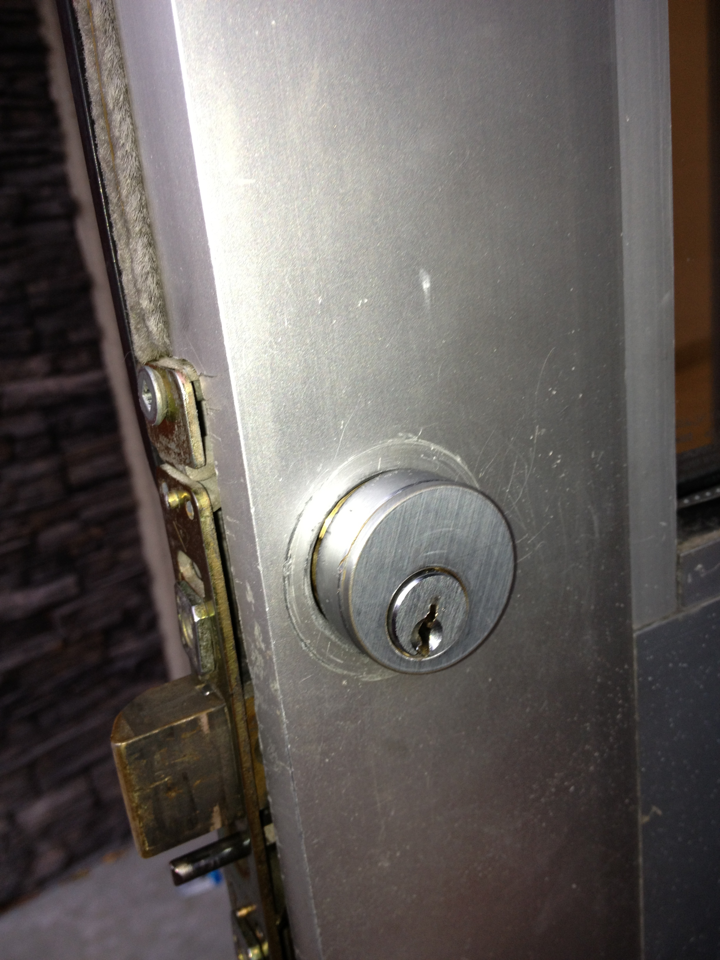 mortise lock